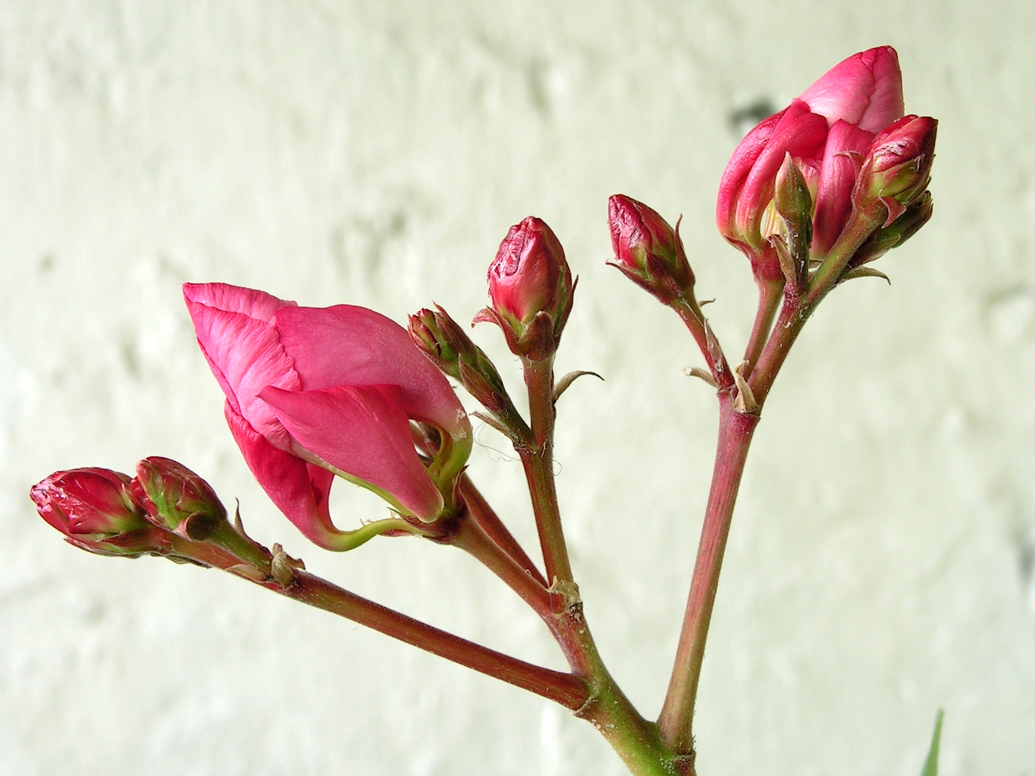 Buds of Nerium oleander.